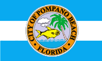 Flag of Pompano Beach, Florida